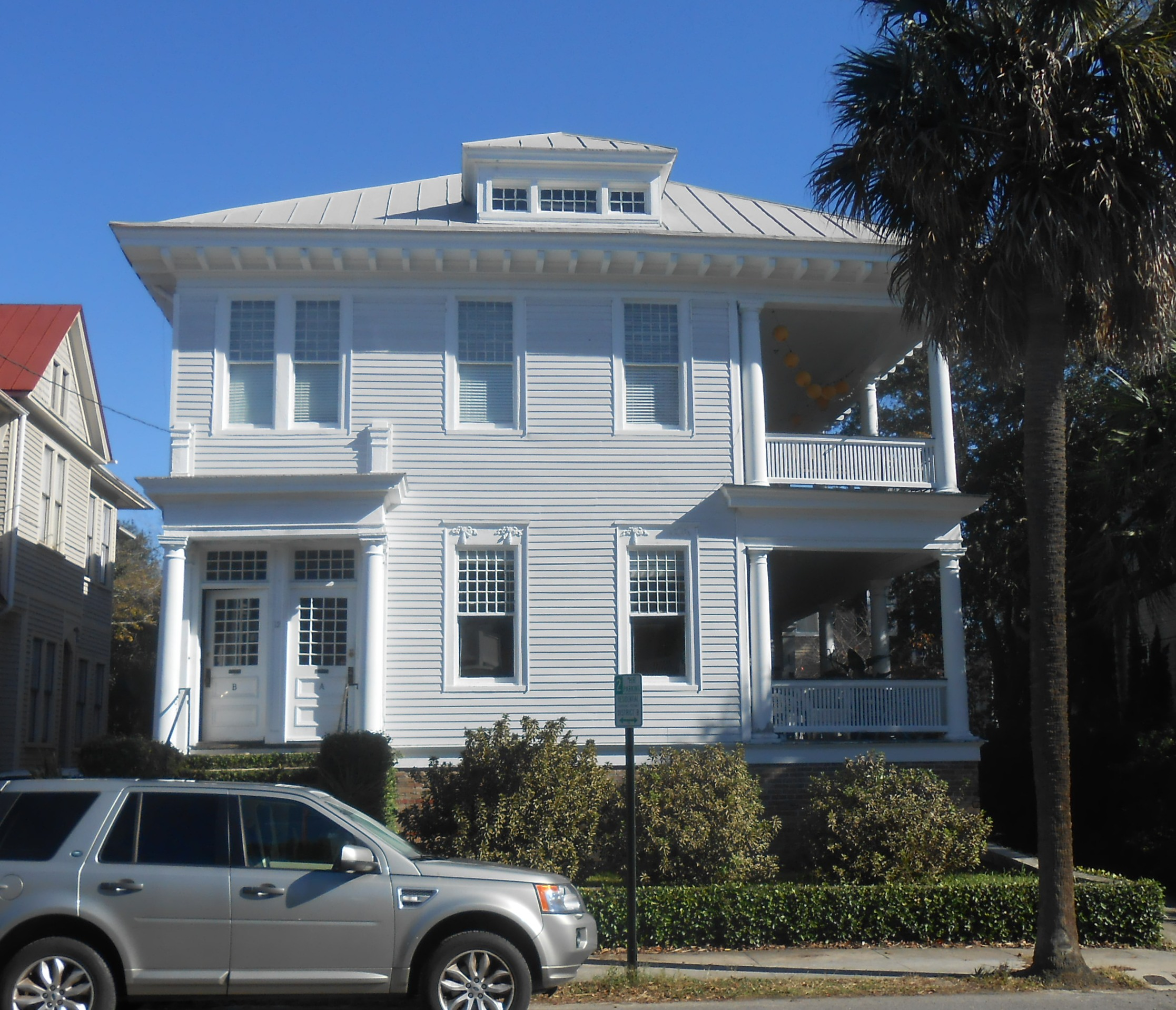 12 Rutledge Avenue, Charleston, South Carolina